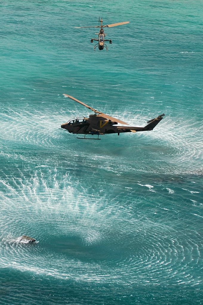 April 6, 2005 Its unique abilities and precision weapons have led the Israel Air Force to use the Cobra helicopter to fight wars and hit targets during military operations. A difficult target for enemy fire, the Cobra is primarily used as an attack helicopter. Manufactured in the US, Israel has used the Cobra since the 1970's. Photo by the Israel Air Force.